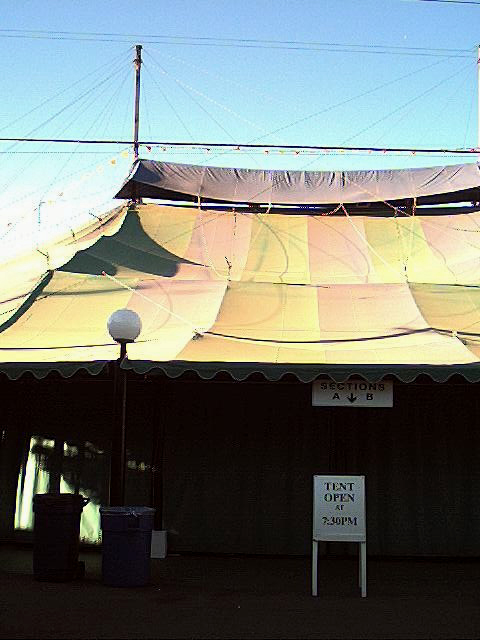 Sacramento Music Circus Tent, front entrance Submitted by photographer Mark Miller